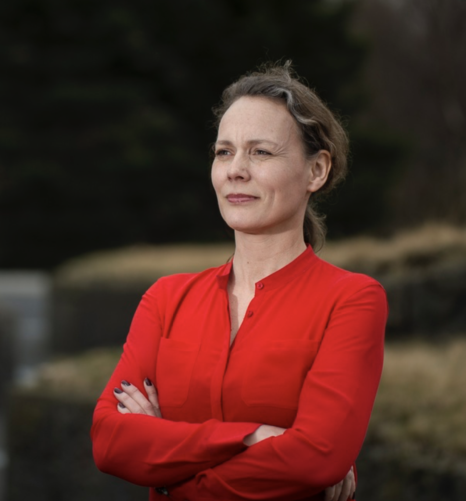 Brynhildur Davidsdottir